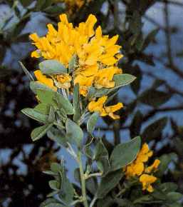 Sicilian botanical endemisms Cytisus aeolicus